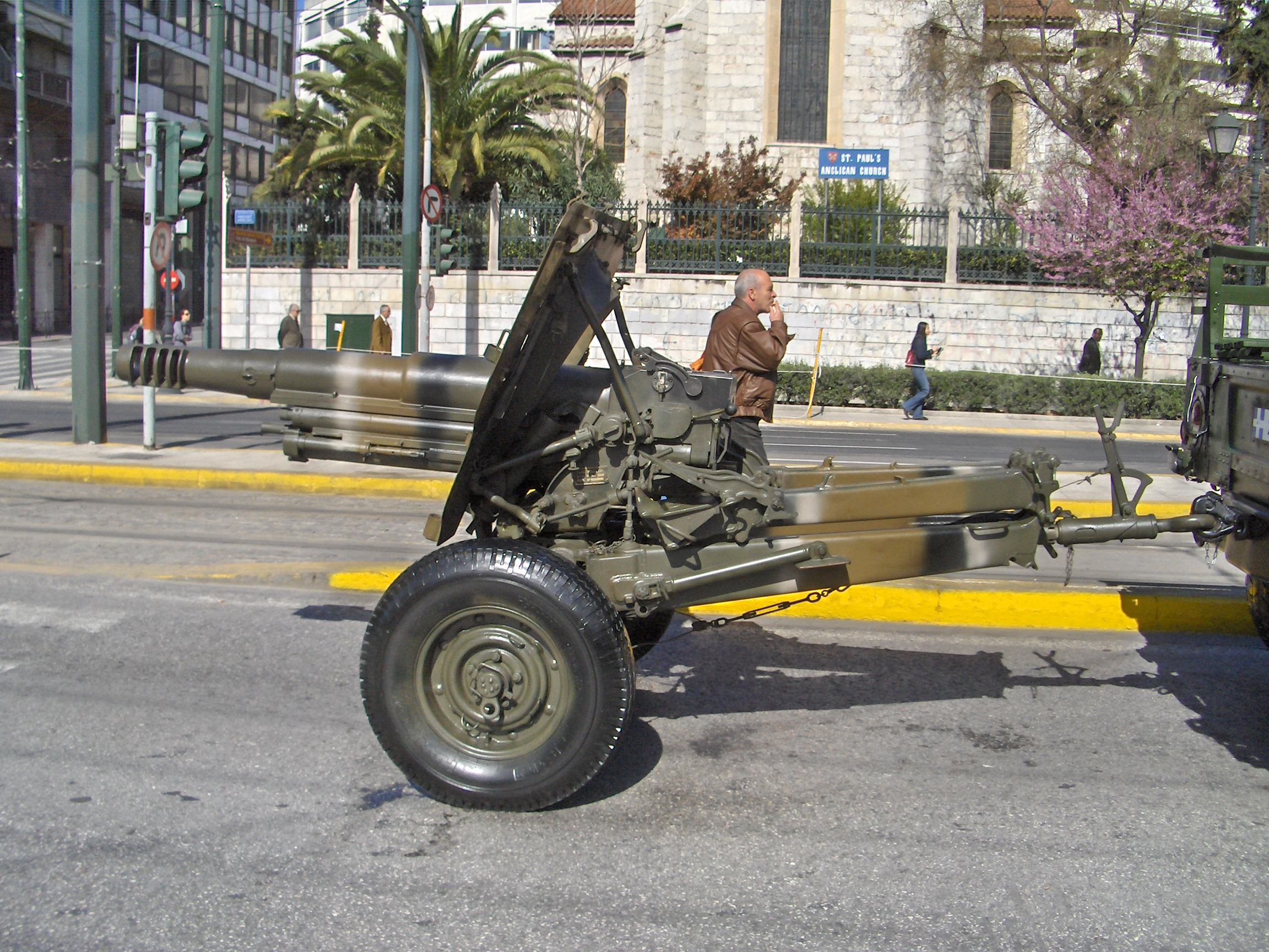 Hellenic Army OTO Melara Mod 56 Pack Howitzer